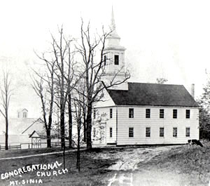 Historic photo of Mount Sinai Congregational Church in Mount Sinai, NY